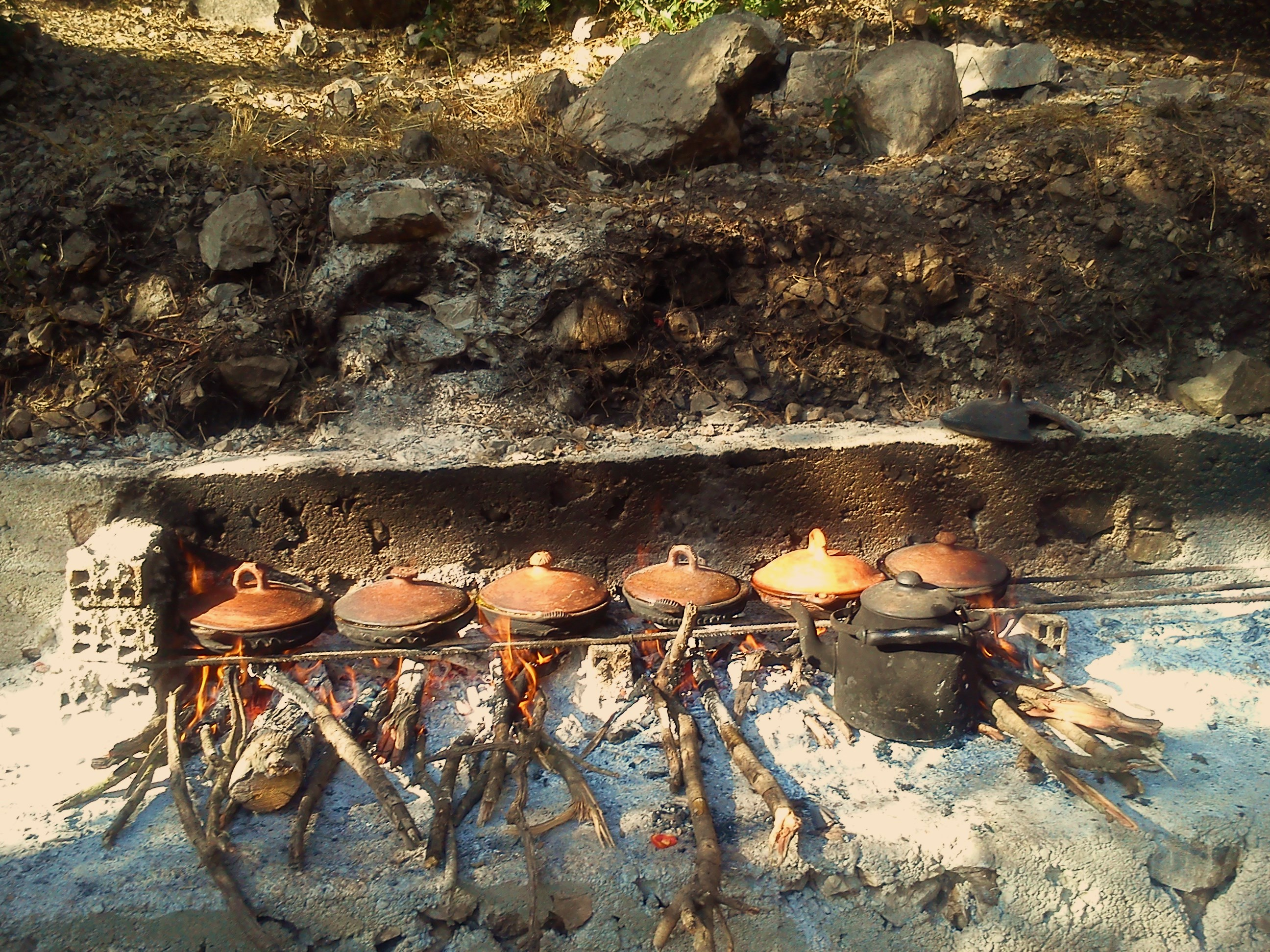 Outdoor cooking using a tagine